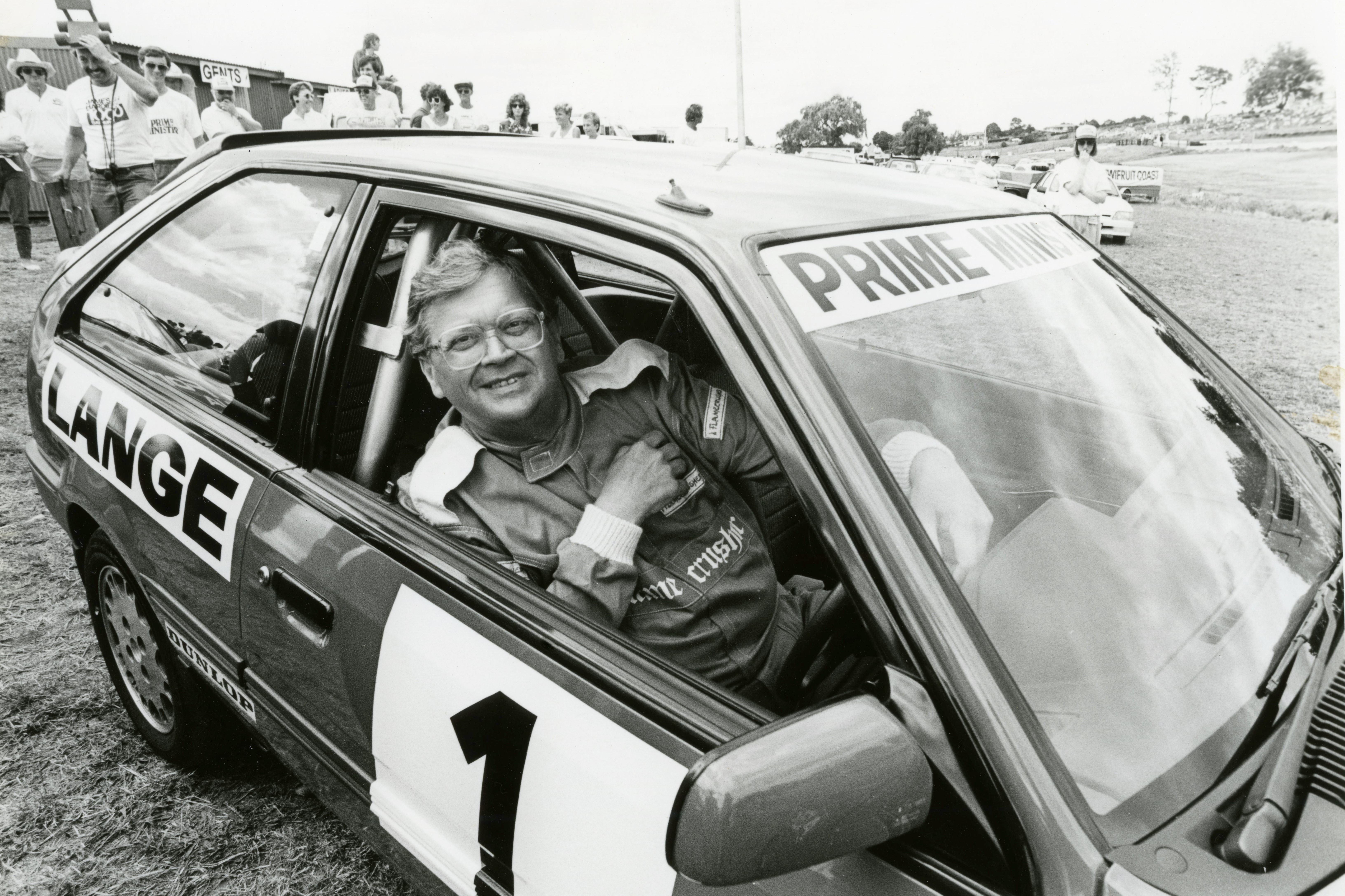 David Russell Lange was leader of the fourth Labour Government and Prime Minister of New Zealand from 1984–1989. He was New Zealand’s youngest prime minister during the 20th century and the first Labour leader since the 1940s to achieve a second term as Prime Minister. In 1977 Lange entered Parliament as the Labour MP for Mangere. In 1979 he was elected Deputy Leader of the Opposition, and in 1983 became Leader of the Opposition following the resignation of Bill Rowling. Lange was Prime Minister of New Zealand from 1984 to 1989, presiding over one of the most dramatic periods of political change in New Zealand's history. Following his resignation as Prime Minister, Lange held the positions of Attorney-General, Minister in Charge of the Serious Fraud Office, and Minister of State, from 1989 to 1990. Lange is remembered as a witty and gifted orator, demonstrated in his iconic quip about smelling uranium on the breath of his opponent at a 1985 debate at the Oxford Union – for audio of this debate go to: .nz/media/sound/oxford-union-debate Lange was also known to have enjoyed driving rally cars. This undated photograph comes from a series of photographs, pictures, drawings and non-photographic material which cover both his time as a Member of Parliament and Prime Minister. Some of these items have been sent by the New Zealand High Commission while others have been sent by private photographers/admirers or representatives of foreign governments. There are also a range of publicity photos from all stages of his political career. Many correspondents requested autographed photos of David Lange. All papers offered to Archives New Zealand by David Lange were accepted for acquisition. Archives reference: AAWW 7123 W4640 1/ See more information on this series at Archway